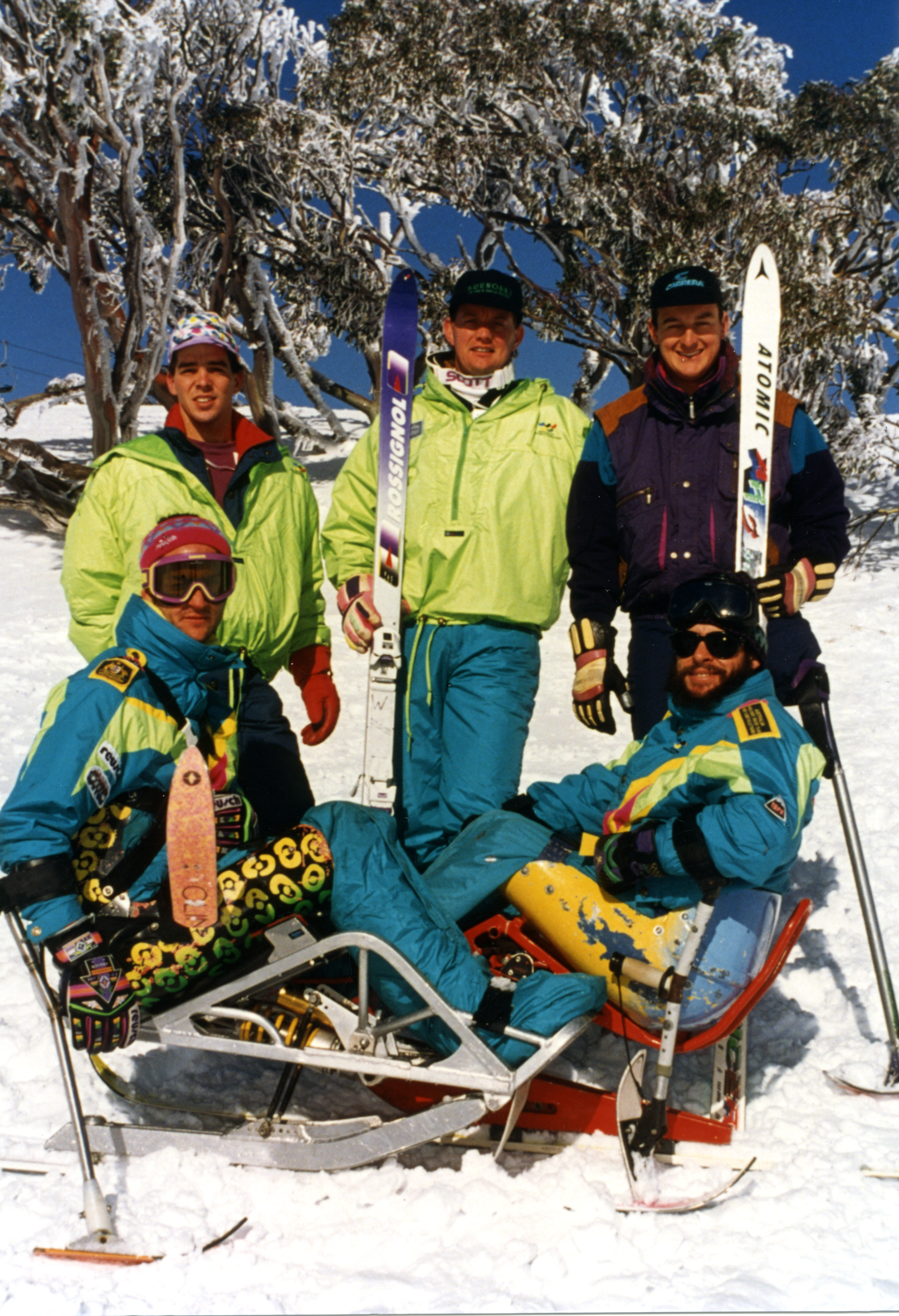 Australian Paralympic athletes selected for the 1994 Lillehammer Winter Games at training in Australia.